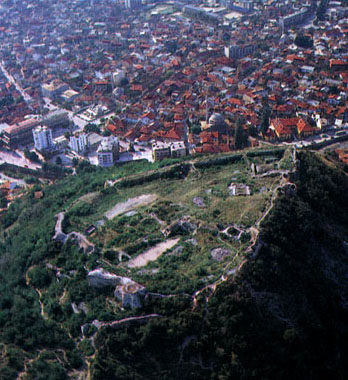 Fortress of Prizren